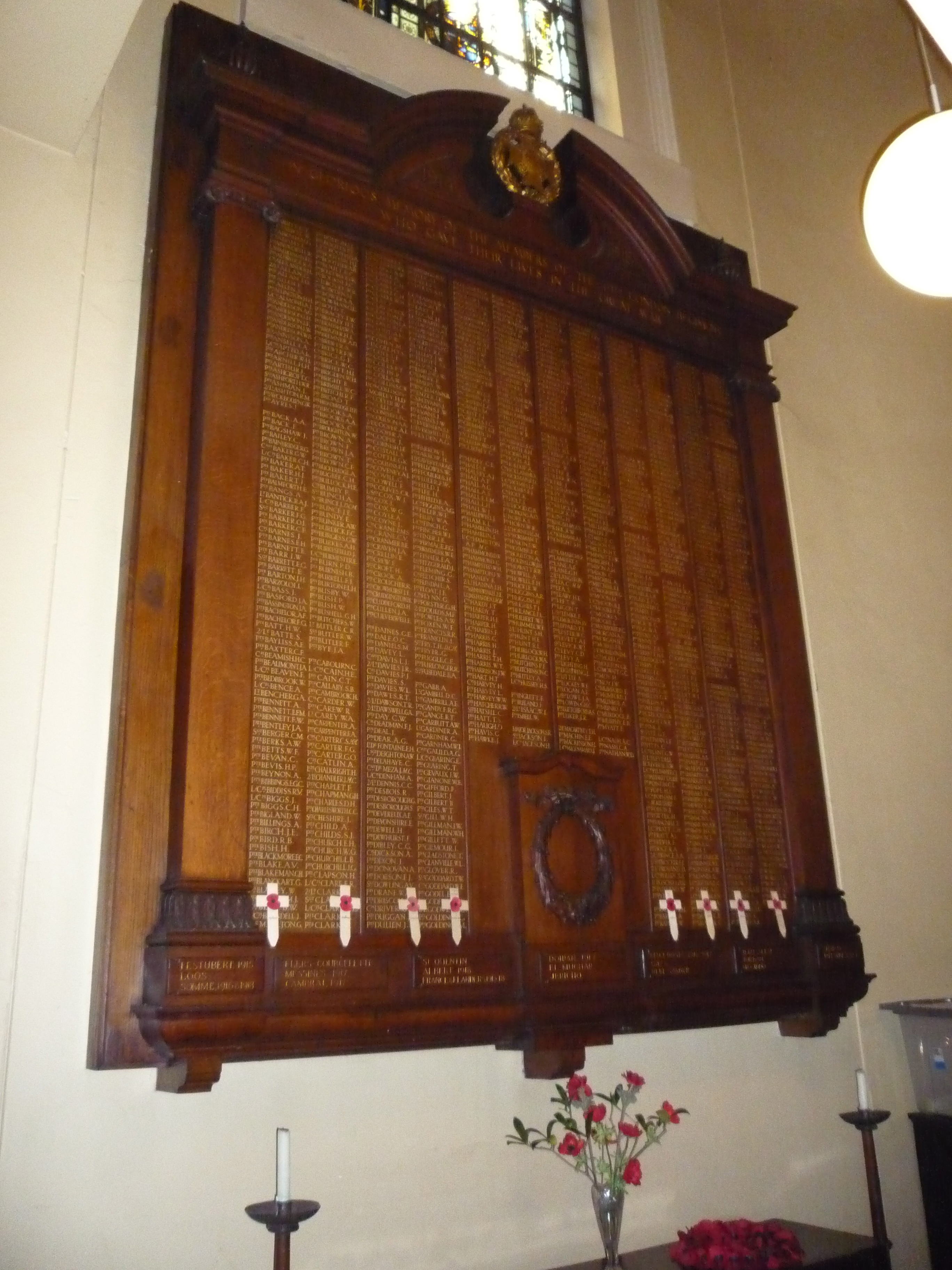 World War I memorial to the men of the 19th London Regiment, located in the South Vestibule of St Pancras New Church